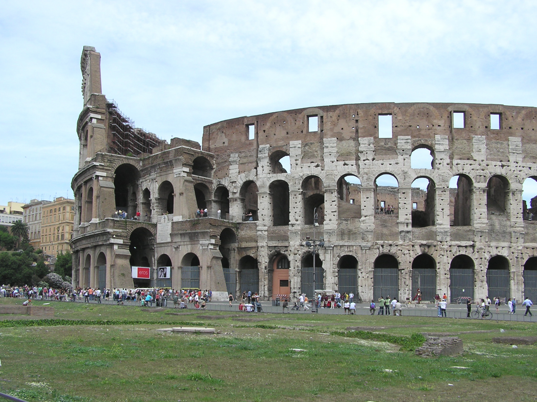 The Colosseum, Rome, Italy.